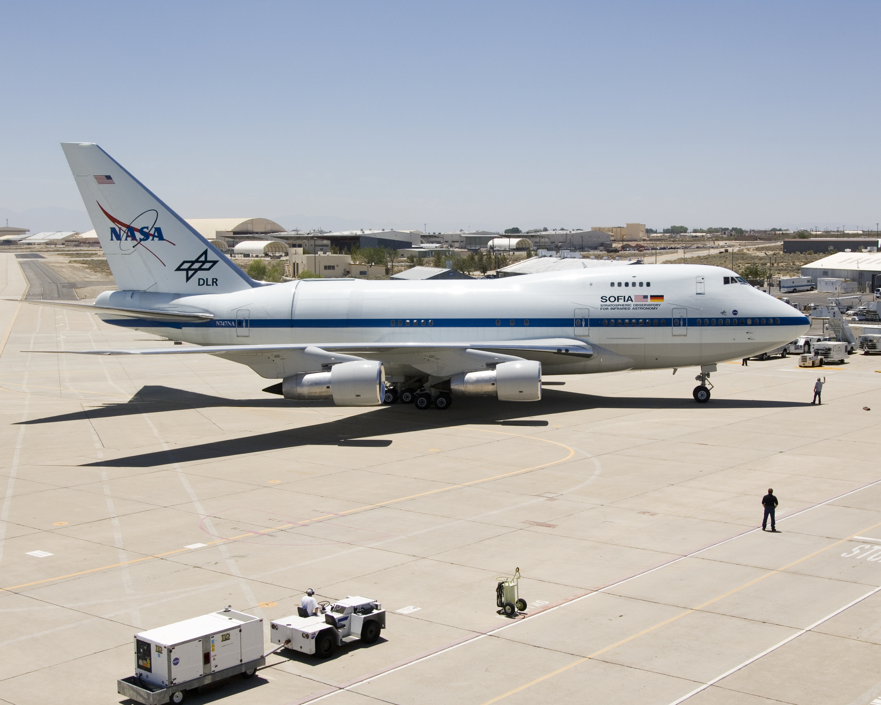 NASA's SOFIA 747SP bearing a German-built 2.5-meter infrared telescope in its rear fuselage taxis up to NASA Dryden's ramp after a ferry flight from Waco, Texas.